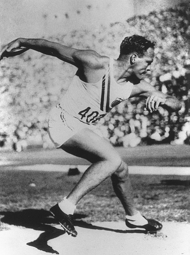 John F Anderson of the USA in action during the Discus event at the 1932 Olympic Games in the Coliseum Stadium, Los Angeles, USA. Anderson won the gold medal with a throw of 49.49 metres.